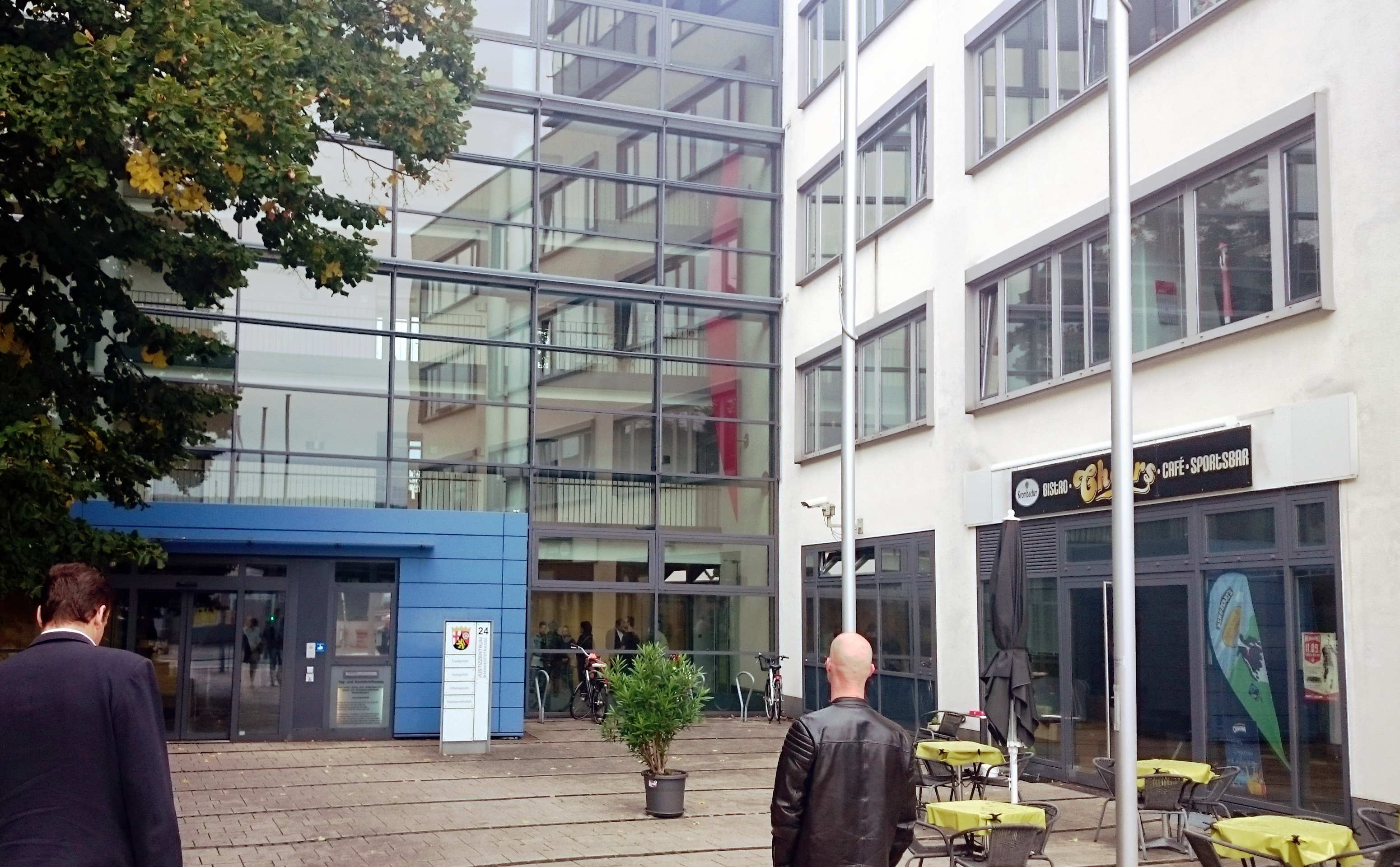 entrance to the courts building of Kaiserslautern